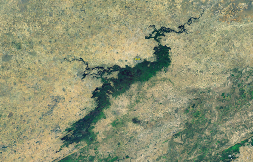 Lake Nguru